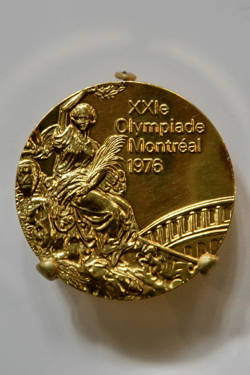 Gold Medal of the 1976 Montreal Olympics.